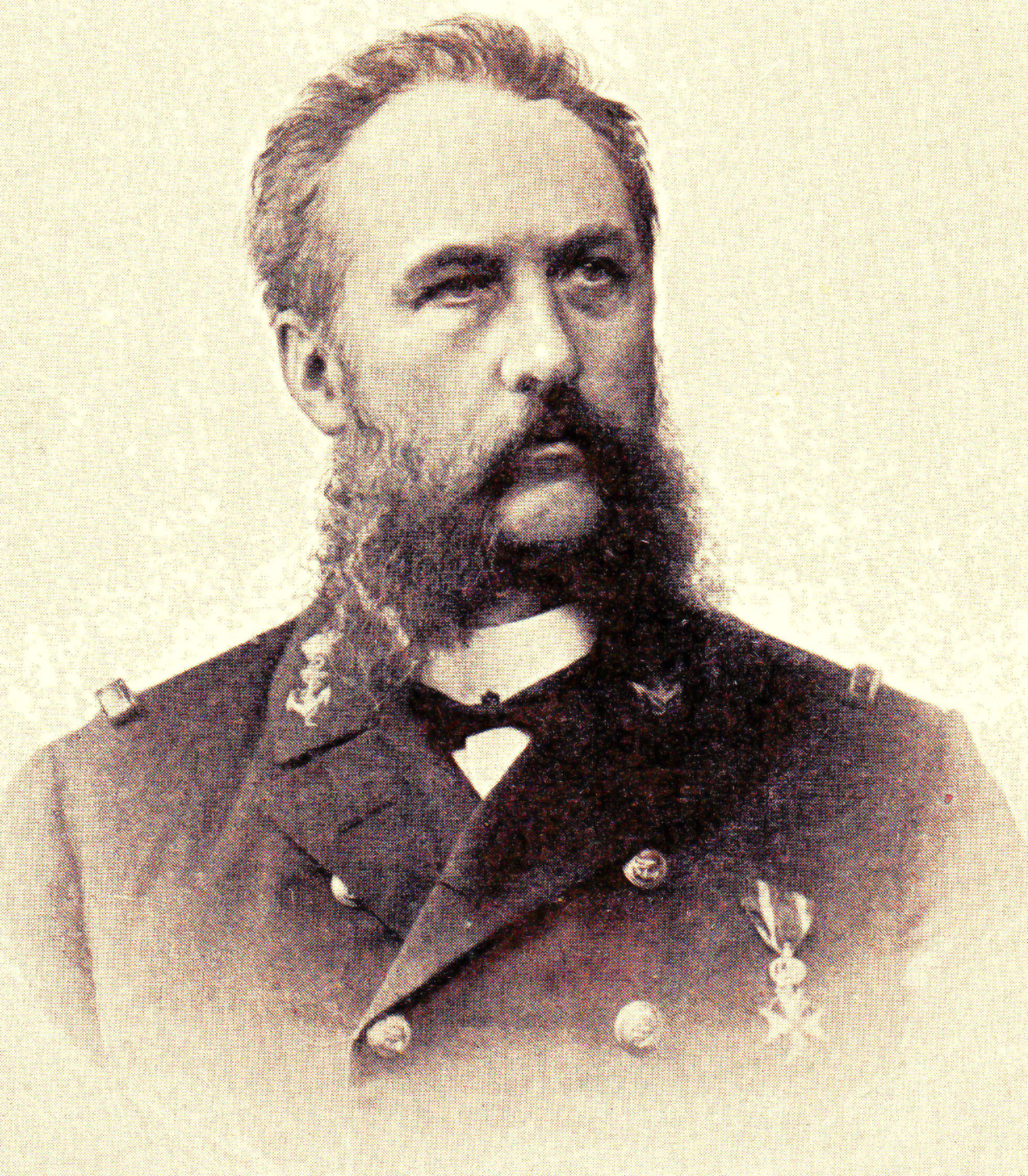 H. Quispel